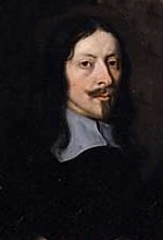 William Cavendish, Duke of Newcastle